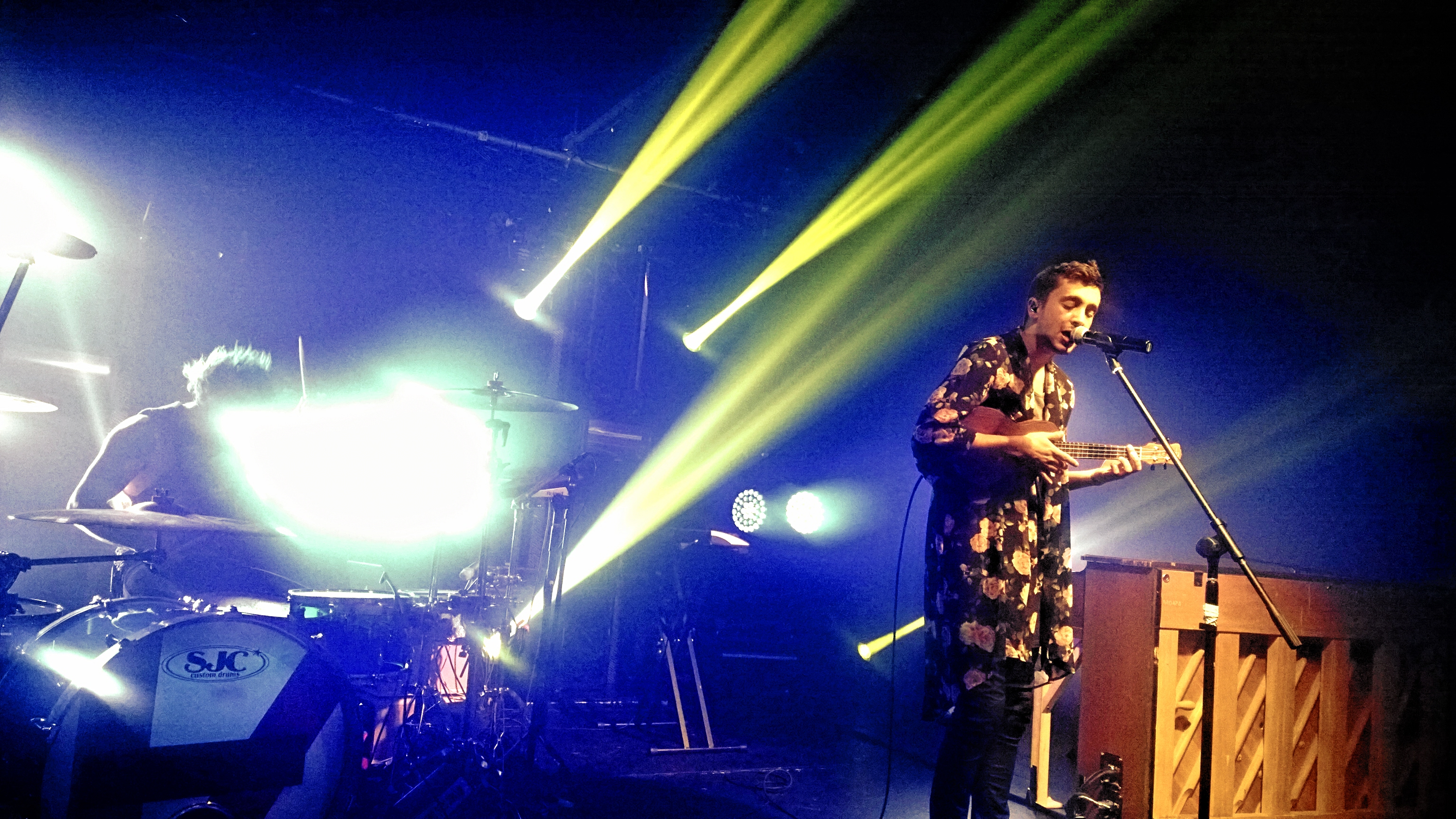 Twenty One Pilots, Portsmouth Wedgewood Rooms